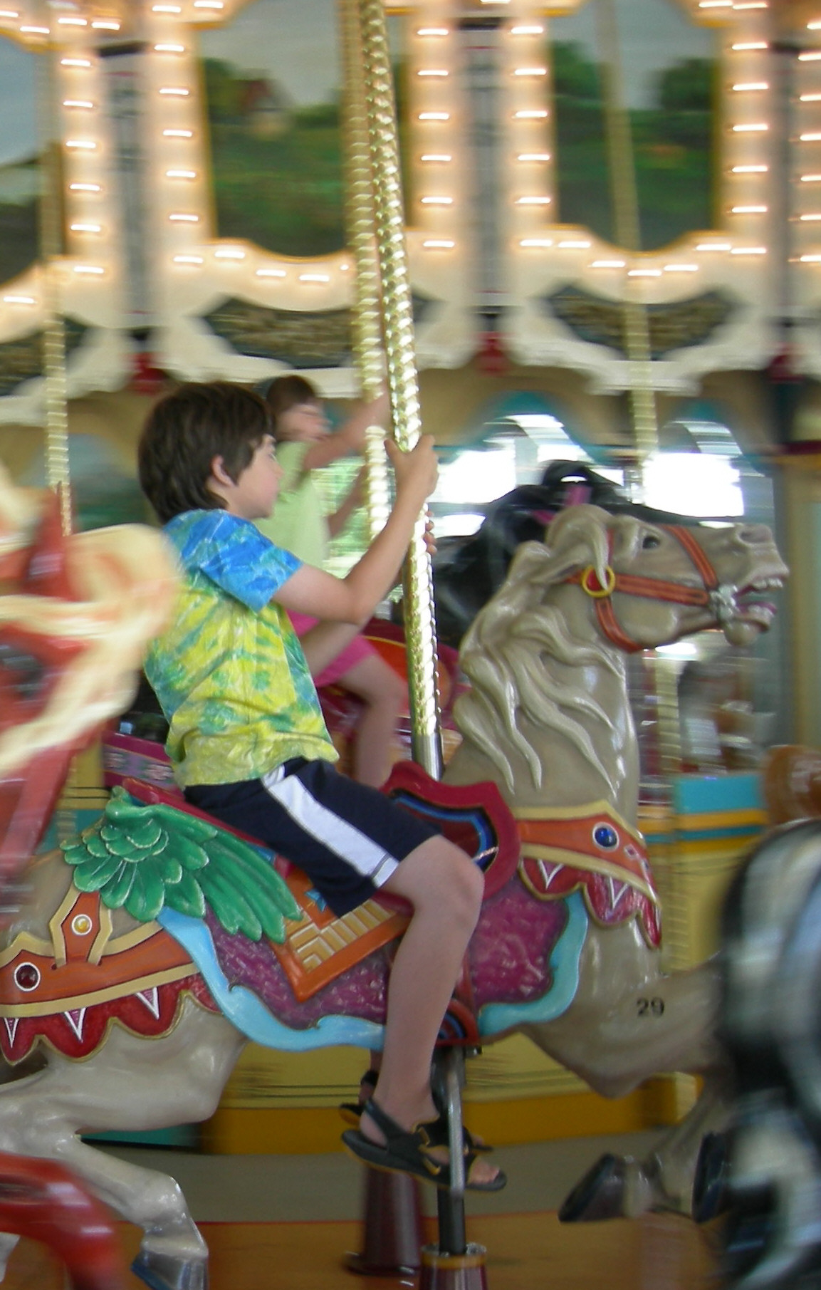 Carousel, Woodland Park Zoo, Seattle, Washington. Hand-carved carousel originally built for the Cincinnati Zoo in 1918 by the Philadelphia Toboggan Company, head carver John Zalar. In the 1970s, the carousel was moved to Santa Clara, California, where it operated into the 1990s. It was donated to WPZ by the Alleniana Foundation, and opened May 1, 2007 in a new pavilion on the zoo's North Meadow.